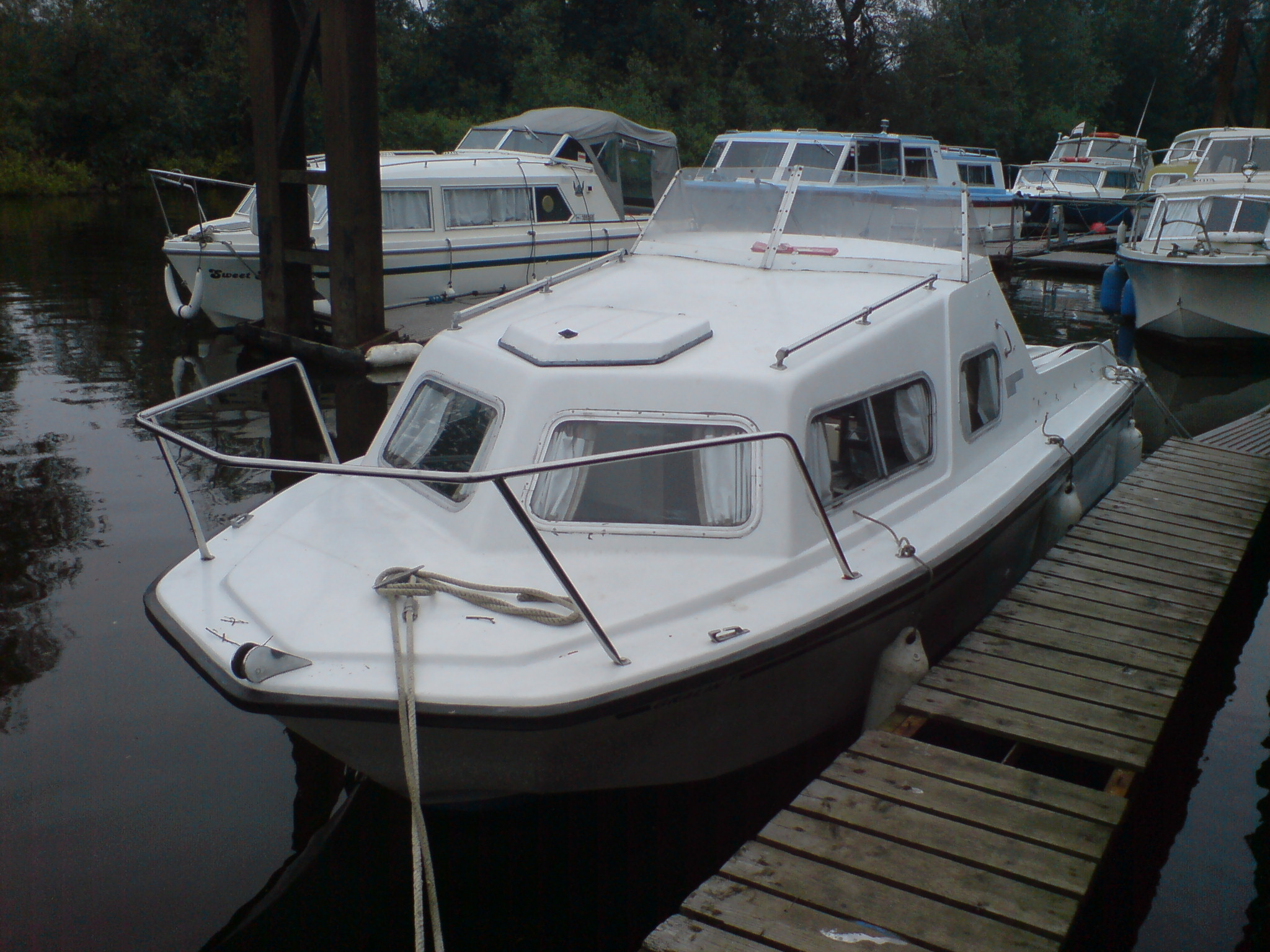 A Microplus 561 cabin cruiser on the River Ouse near York